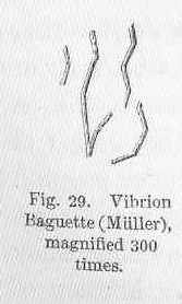 Vibrion Babuette (Muller), magnified... Subject: Vibrion baguette Tag: Invertebrates